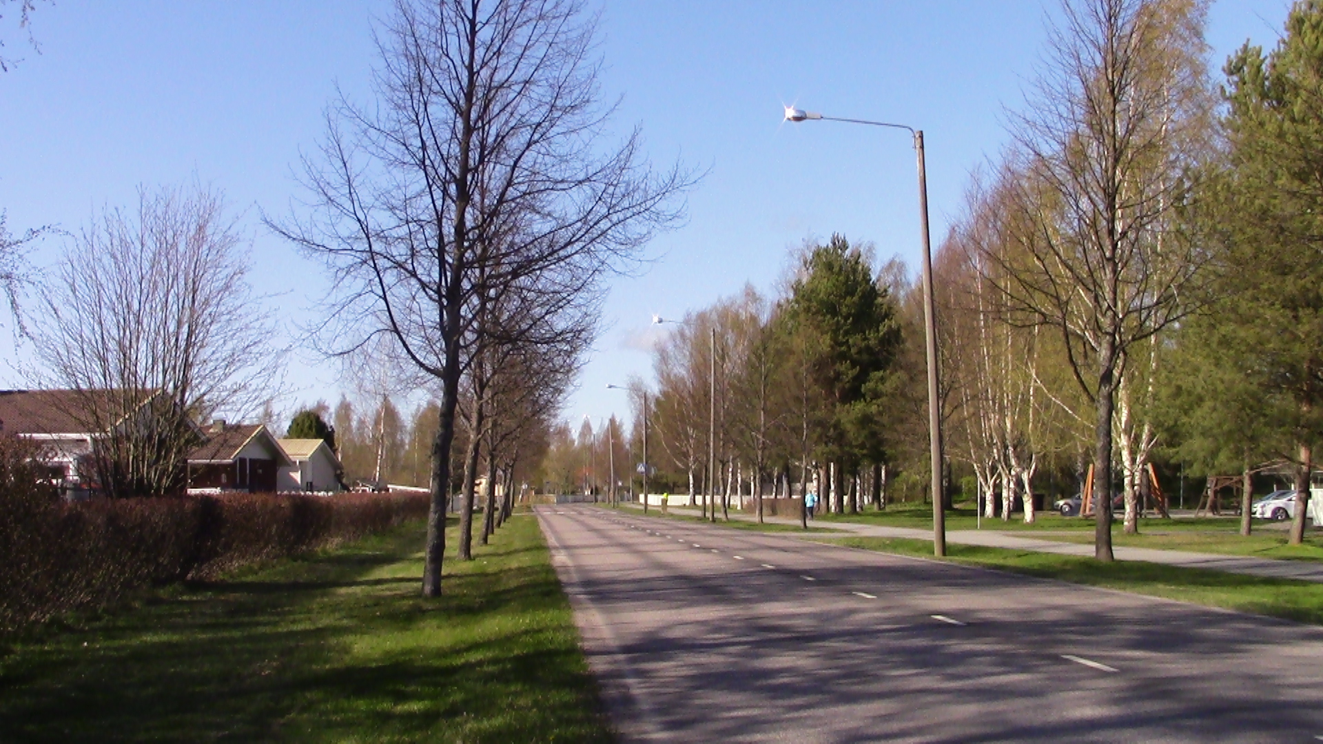 Pappilanpuistikko road at Toejoki suburb in Pori, Finland. The picture's taken from the crossing of Äyriäistie road.